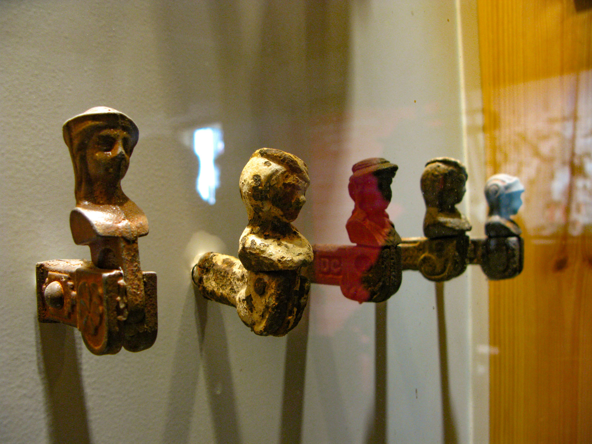 Window blind stopper from Sarona museum Israel